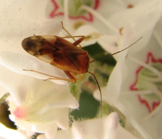 Plant bug, Neolygus laureae, on mountain laurel. Corneille Bryan Native Garden, Lake Junaluska, Haywood County, North Carolina, USA.